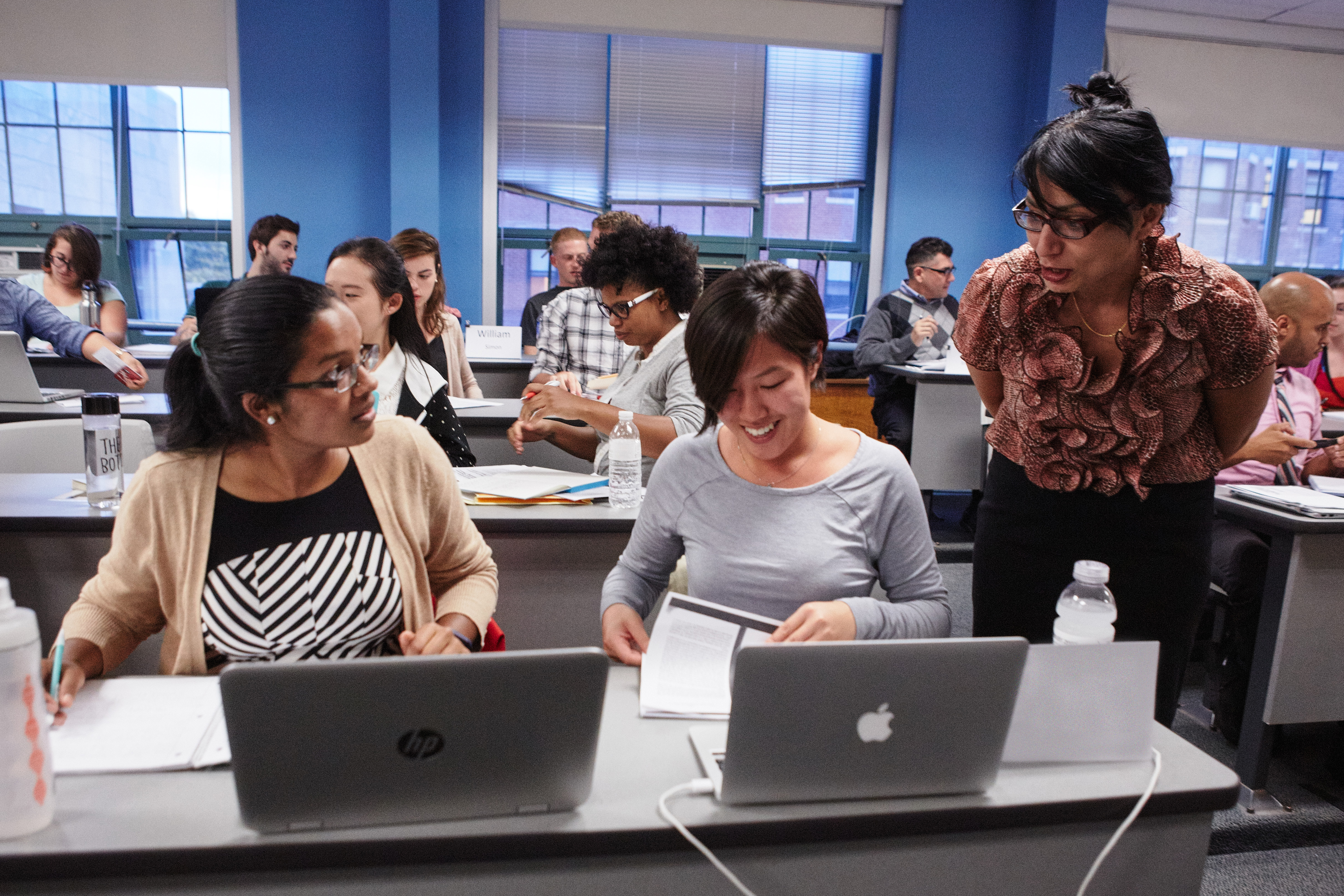 Students and faculty in the master's of urban affairs program at BU's Metropolitan College.